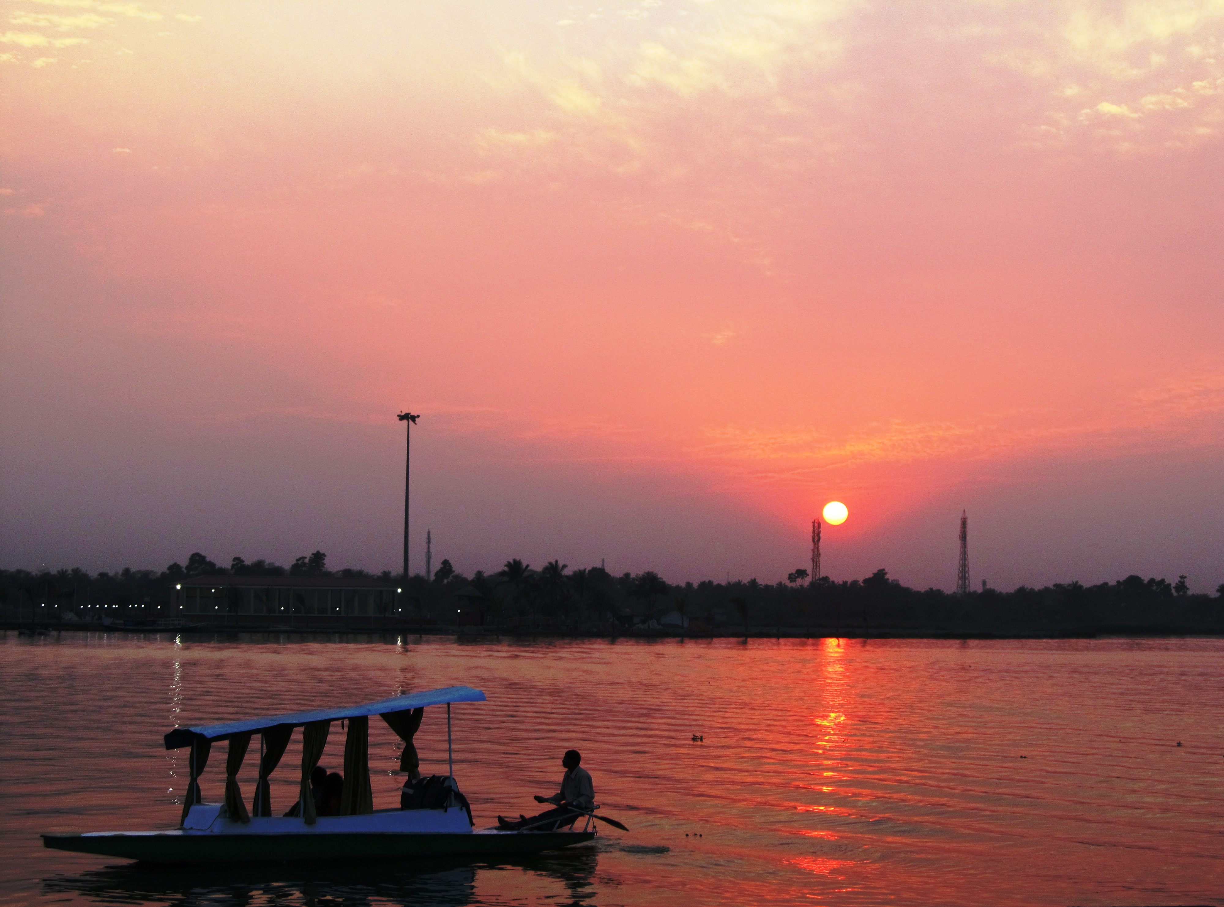 Jal Vihar at New town Eco park